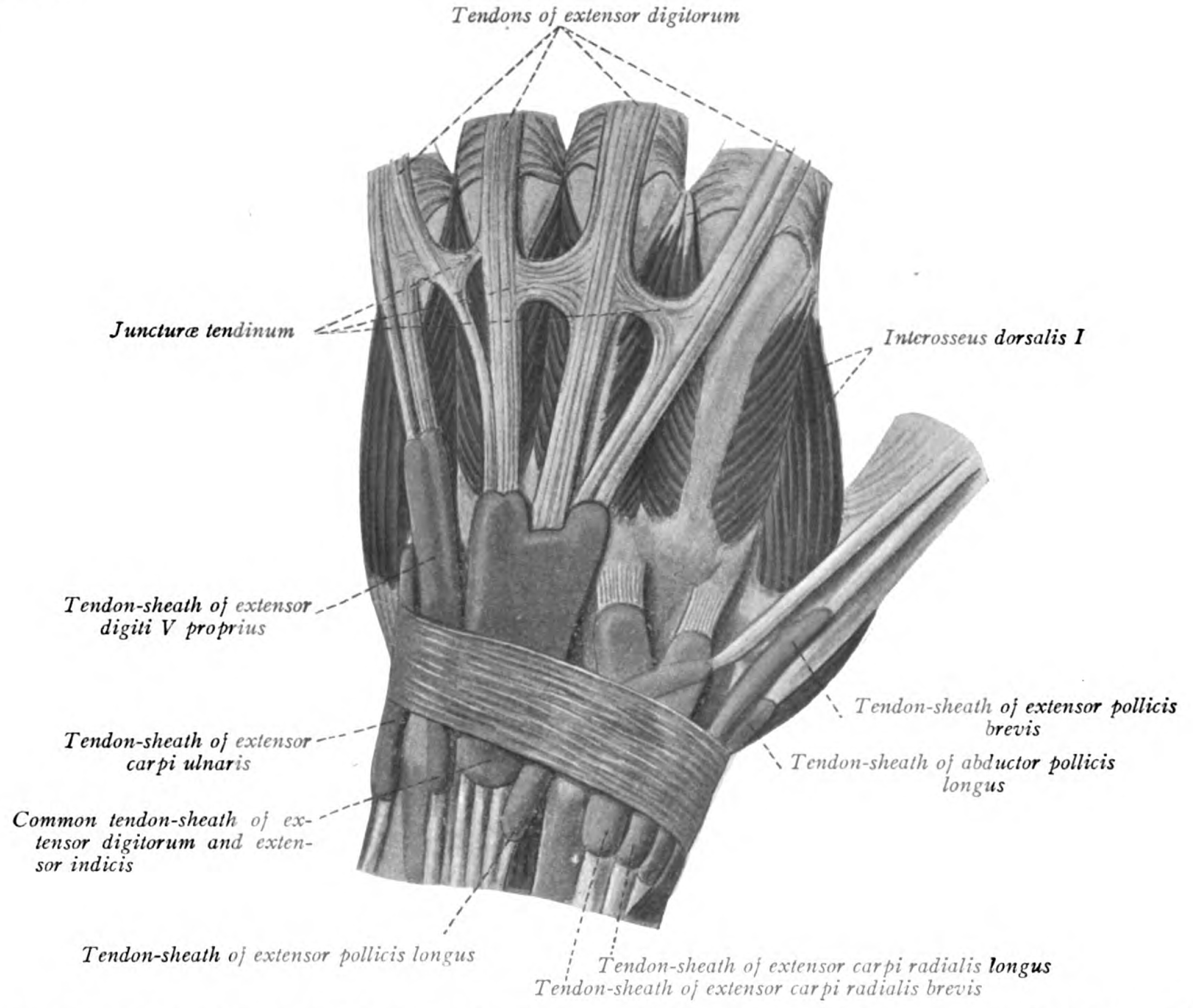 An anatomical illustration from the 1909 edition of Sobotta's Atlas and Text-book of Human Anatomy with English terminology.